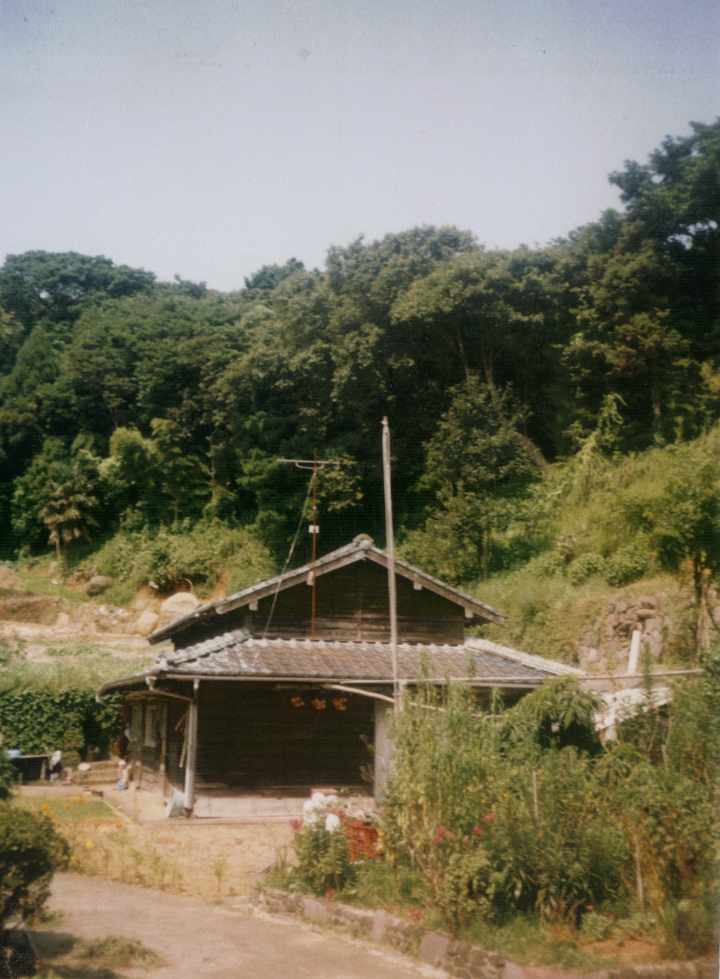 Traditional farm house, Kuroshima Island near Sasebo, Nagasaki Ken, Japan.